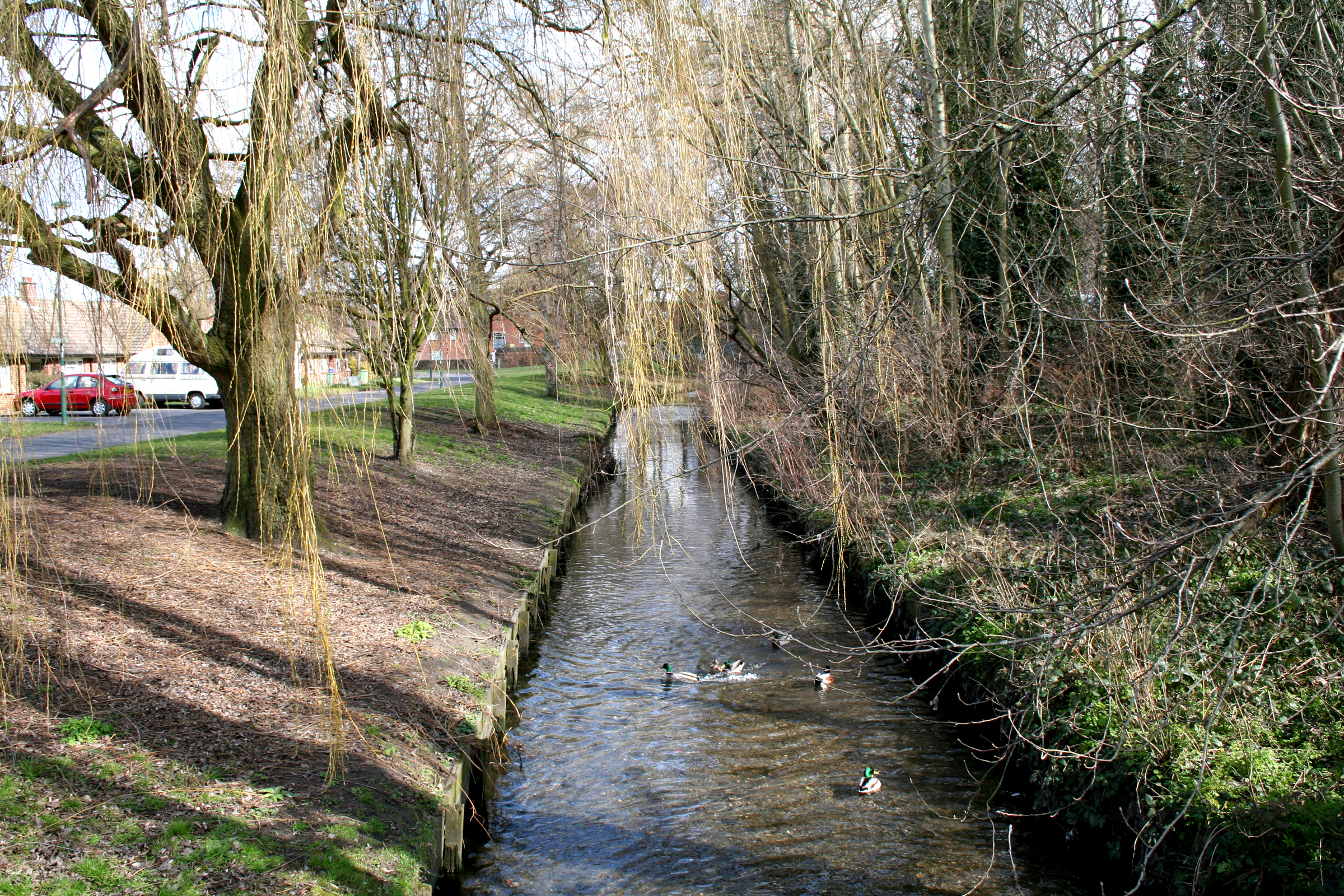 Beddington: River Wandle, looking upstream Where the Wandle Trail passes the end of Lavington Road, there is a footbridge giving access to Richmond Green on the north bank. This photograph was taken from the bridge, looking east (upstream) on the river.